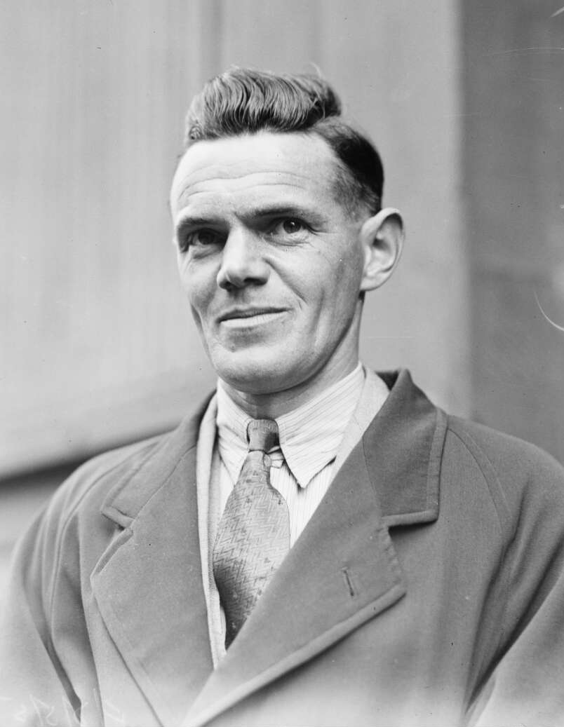 Assistant zoologist on Douglas Mawson's Antarctic Expedition Mr R.A. Falla, New South Wales, 1930